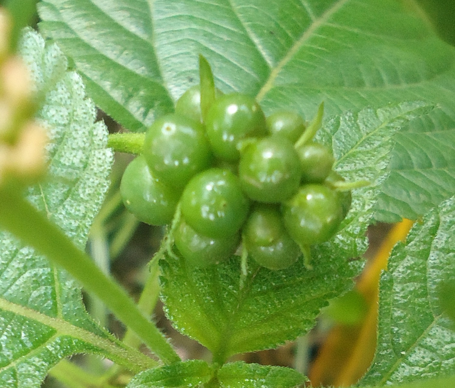 Unripe berries of '"Lantana camara